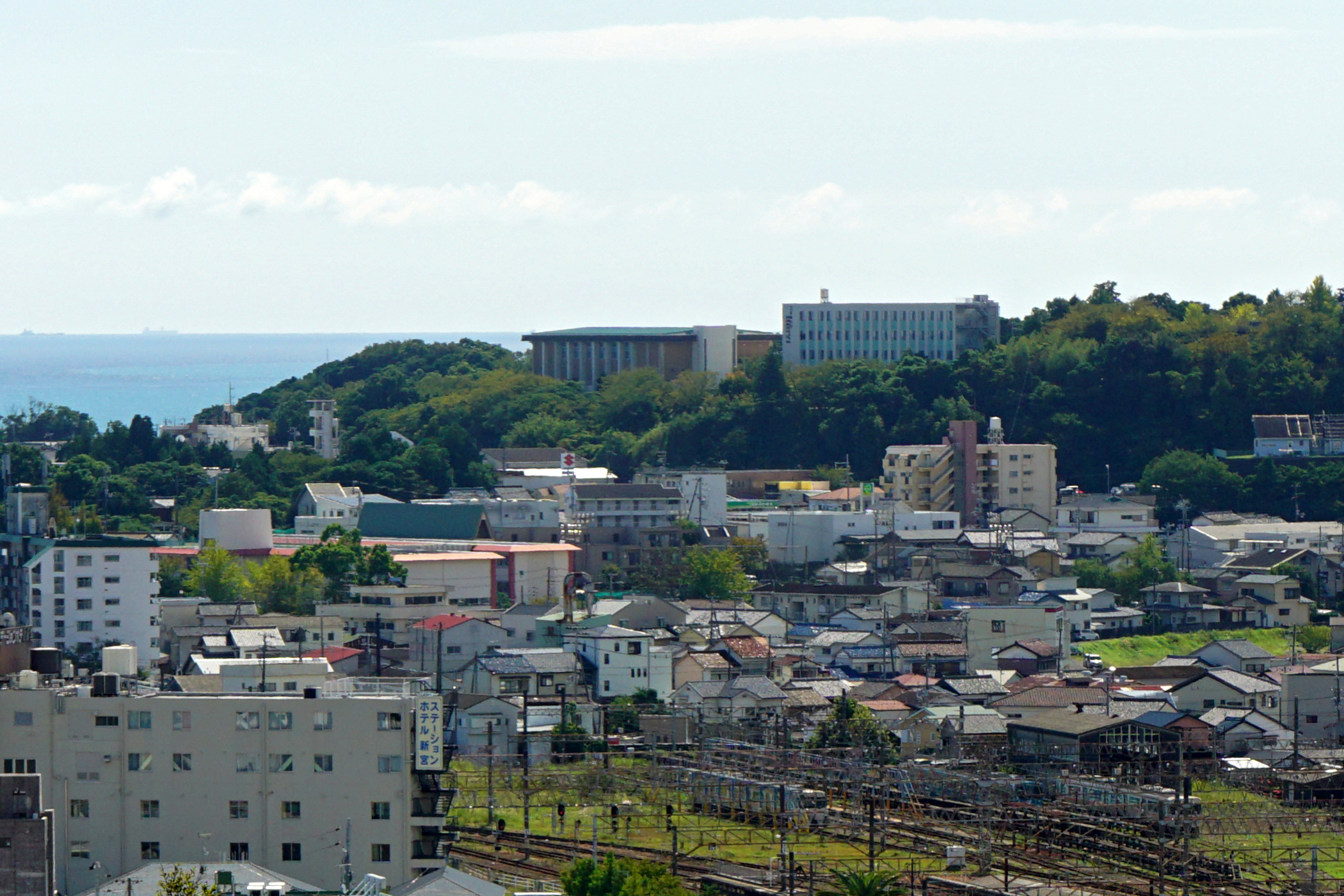 A view from Shingū Castle in Shingū, Wakayama prefecture, Japan